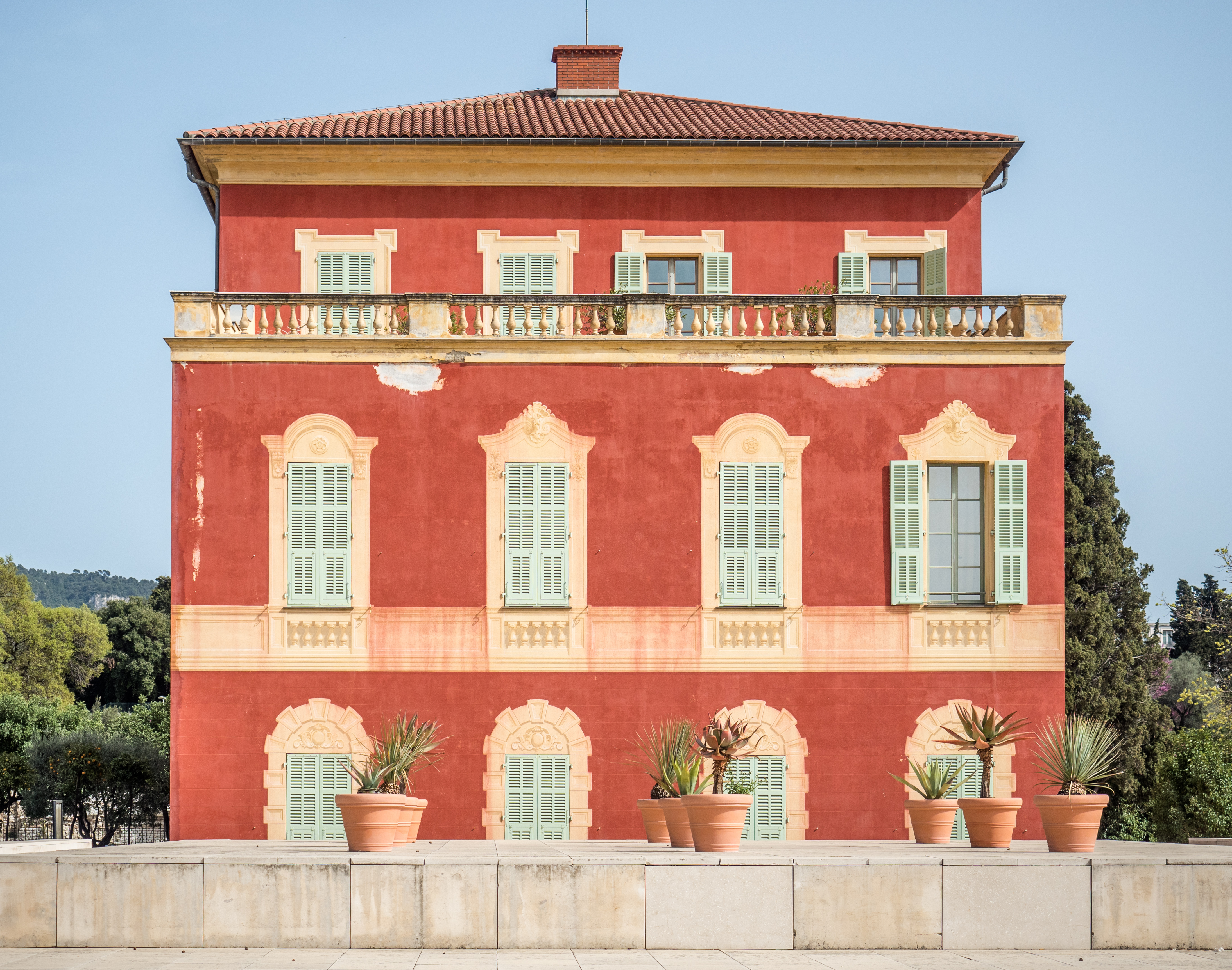 The Matisse Museum in Nice, France